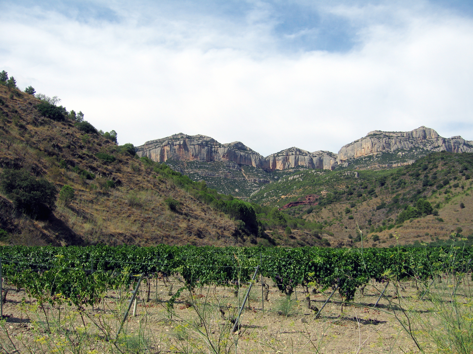 Vineyards of the former carthusian monastery “Cartoixa d’Escaladei” in the Montsant mountains (Catalonia).